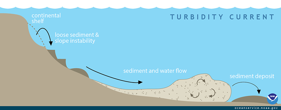 A diagram showing the process of formation and propagation of a turbidity current.